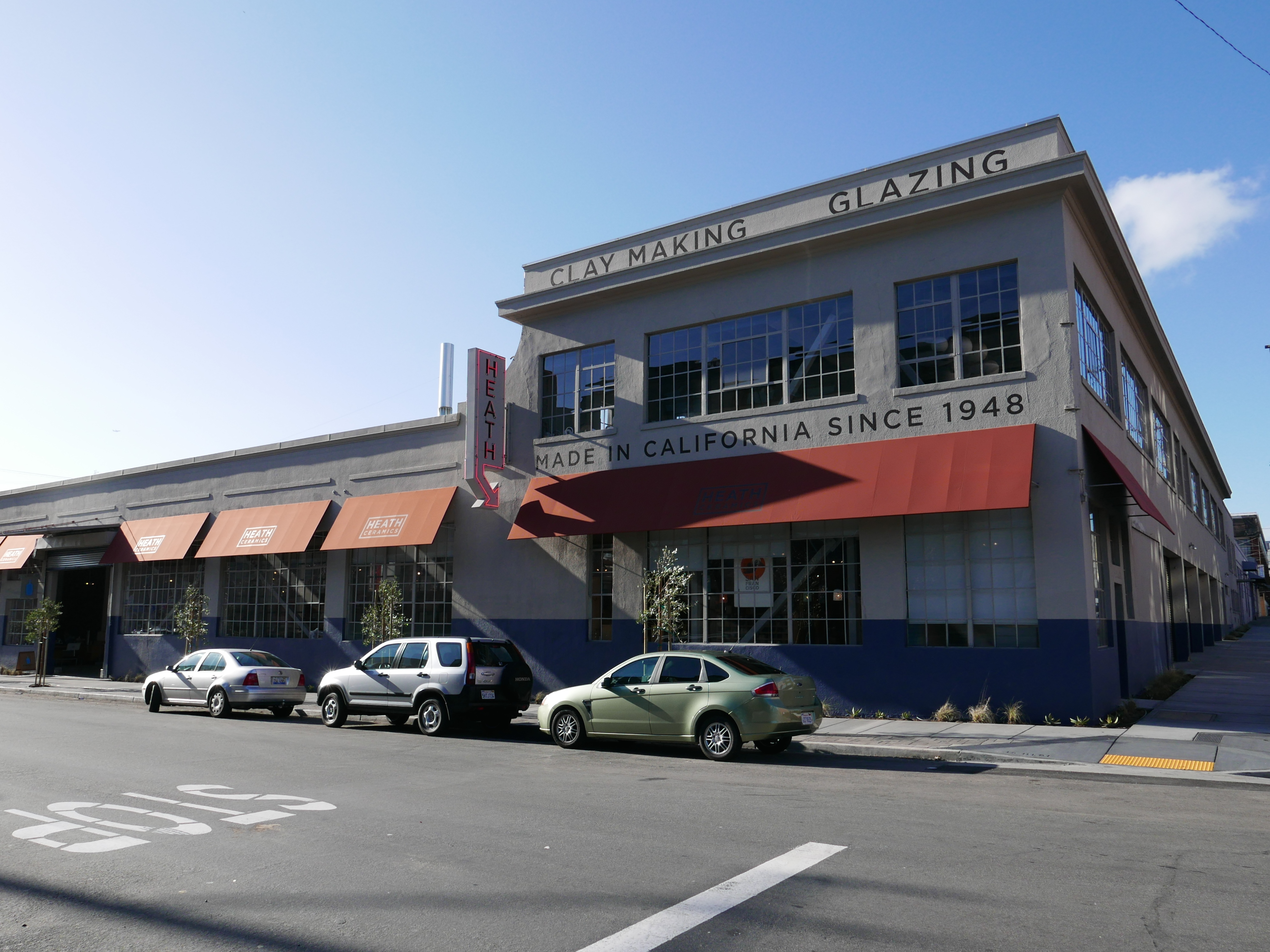 Heath Ceramics tile factory and store in the Mission District of San Francisco